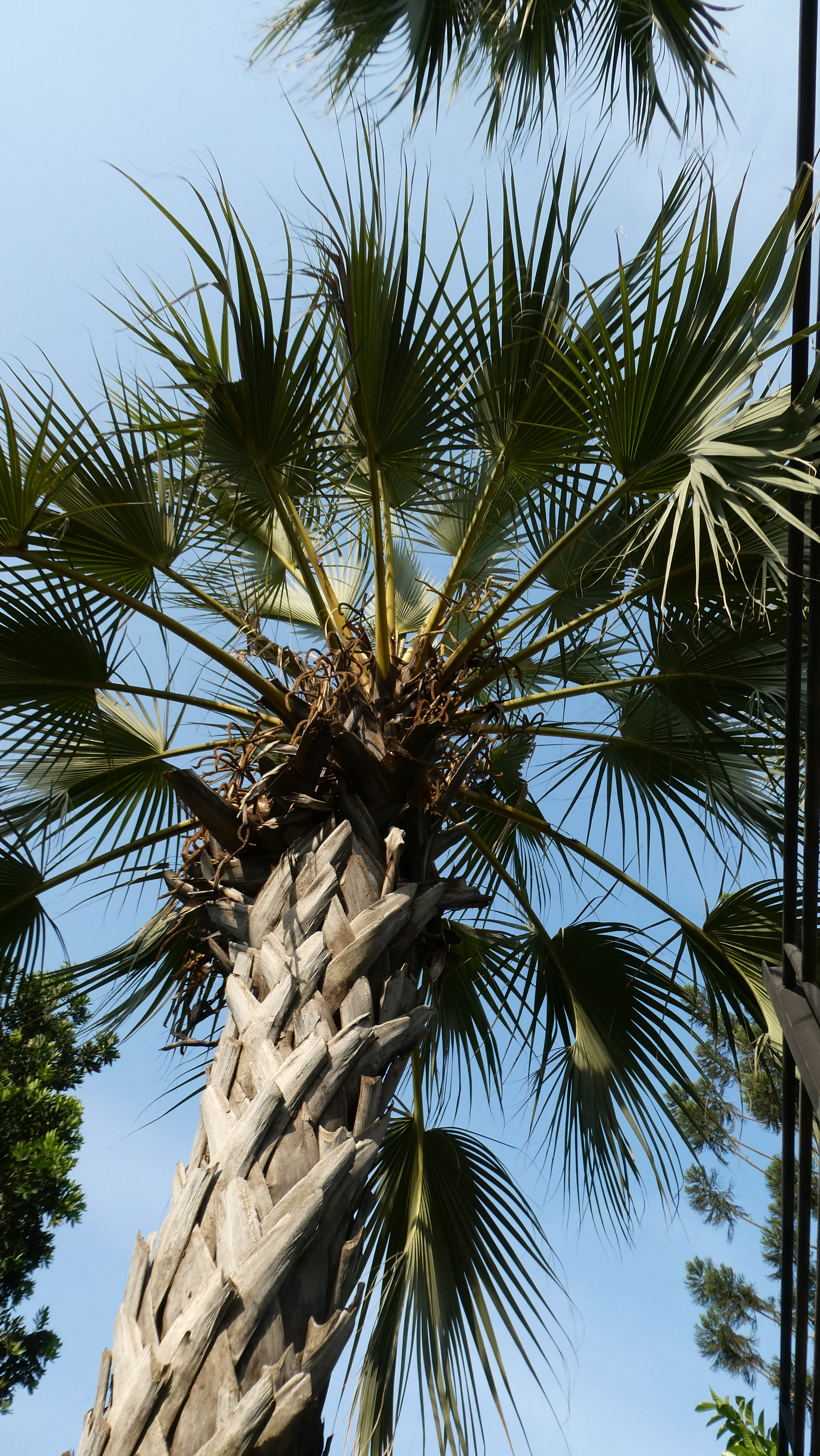 Medemia argun in Nong-Nooch Botanic Garden